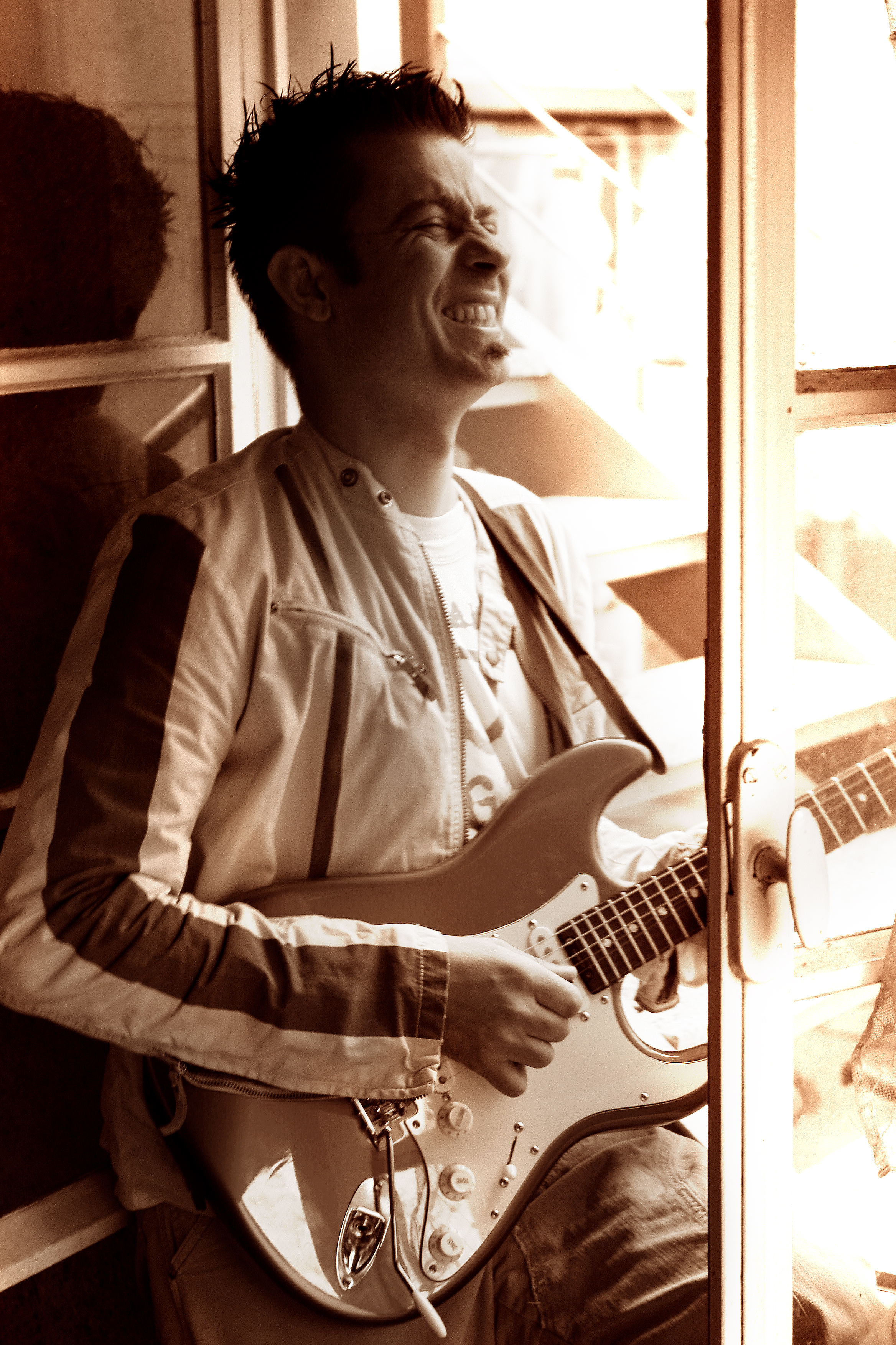 Timo Gross, German guitar player, singer and songwriter, composer and producer, plays Blues